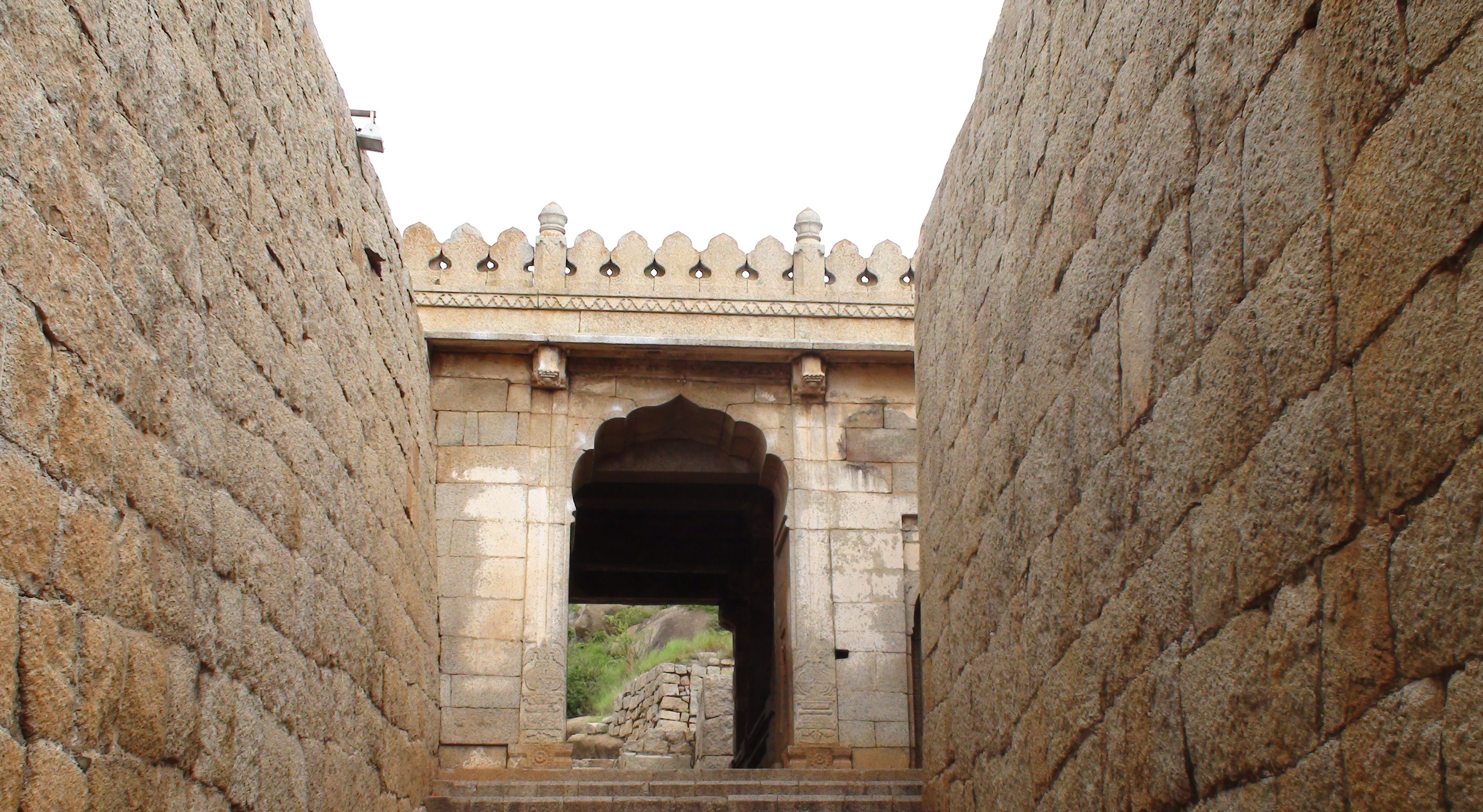 Entrance